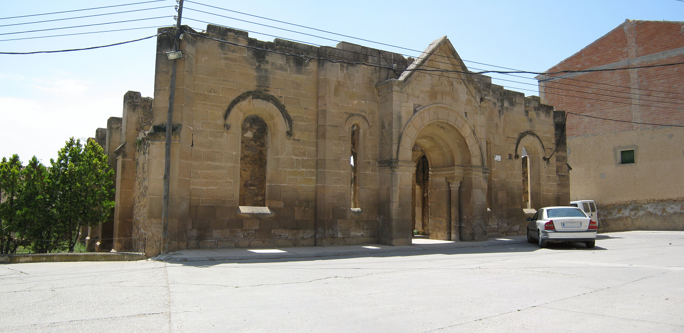 Església Nova (New Church) from Torrebesses.